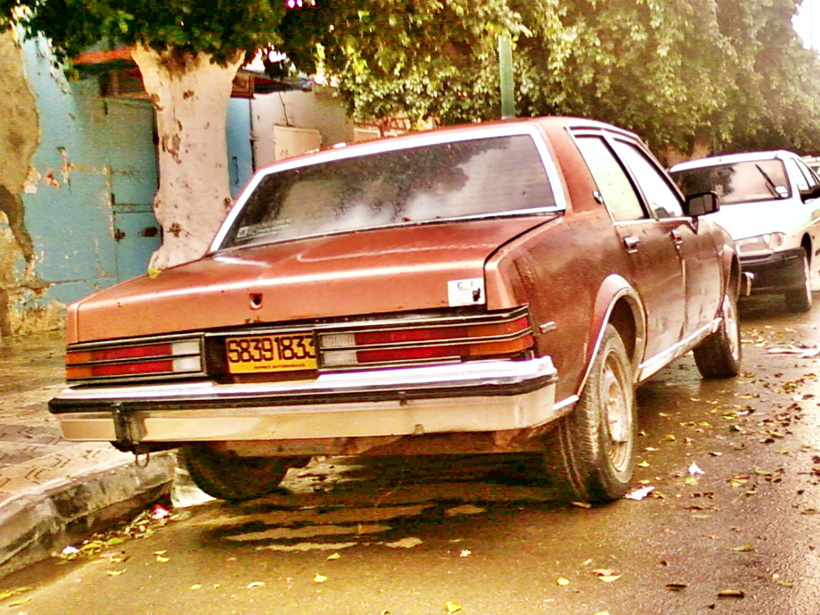 Buick Skylark 1983. Photo taken at Oran, Algeria